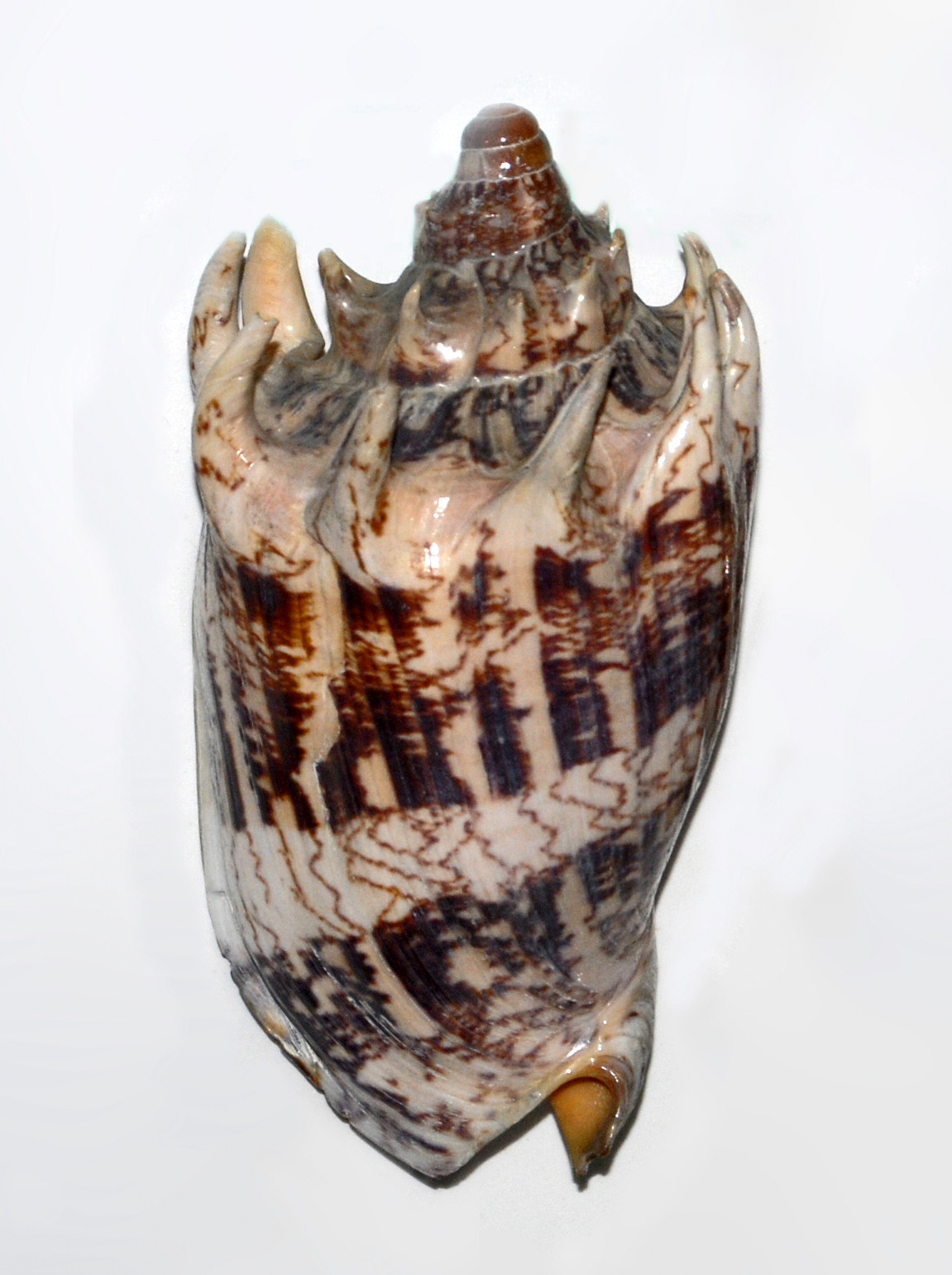 Shell of Cymbiola imperialis. Museum specimen